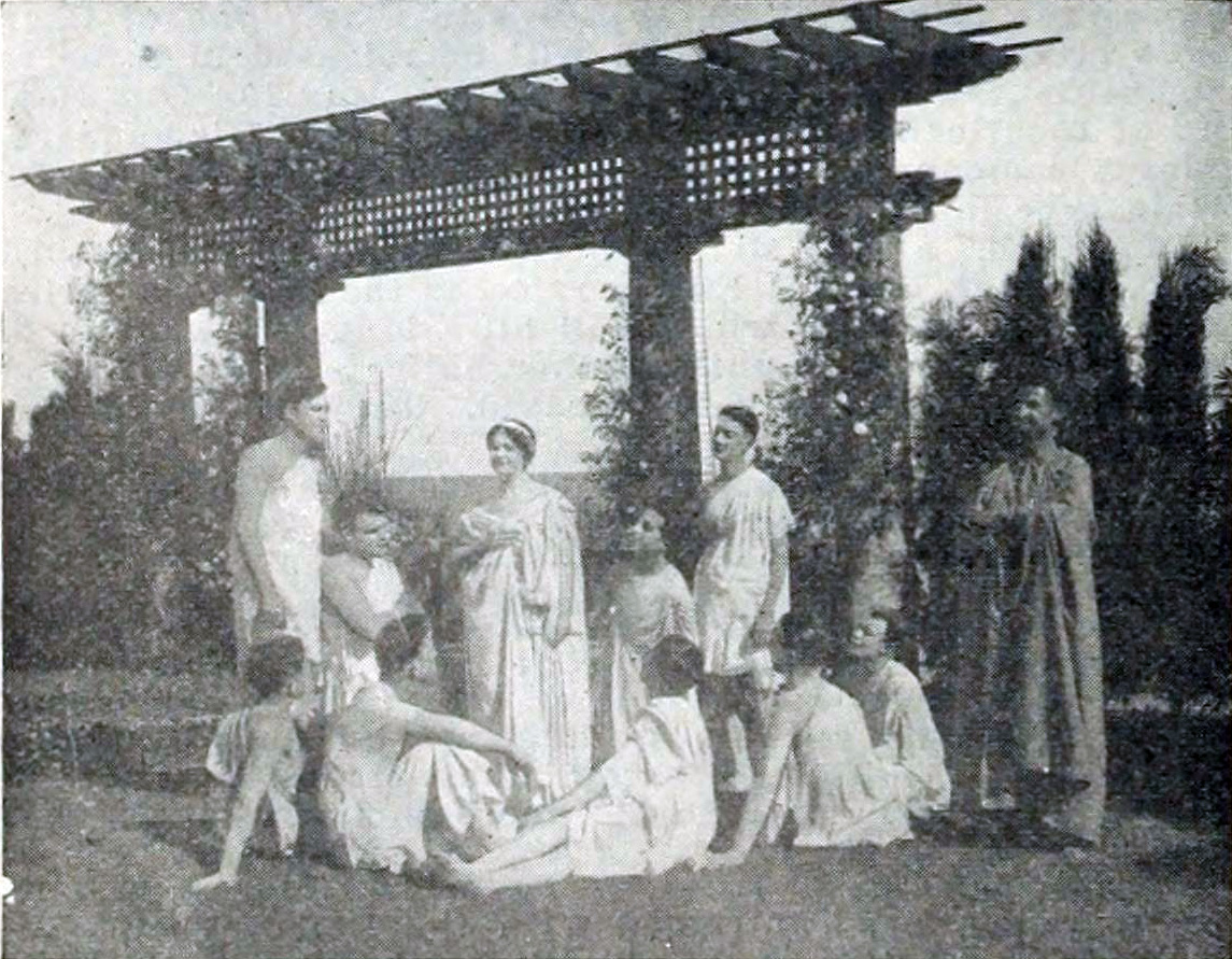 Illustration of a review in The Moving Picture World